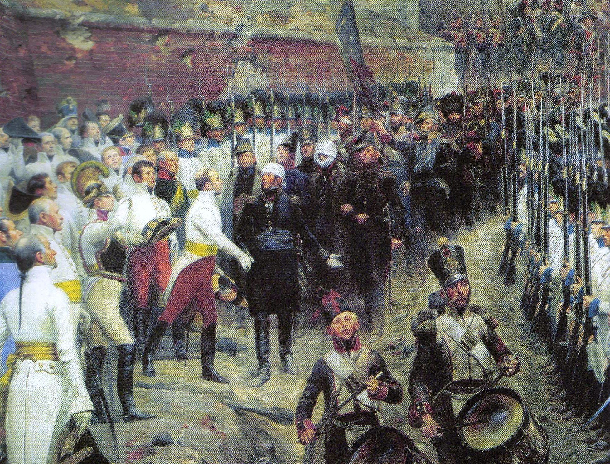 Etching "Garrison Huningue"